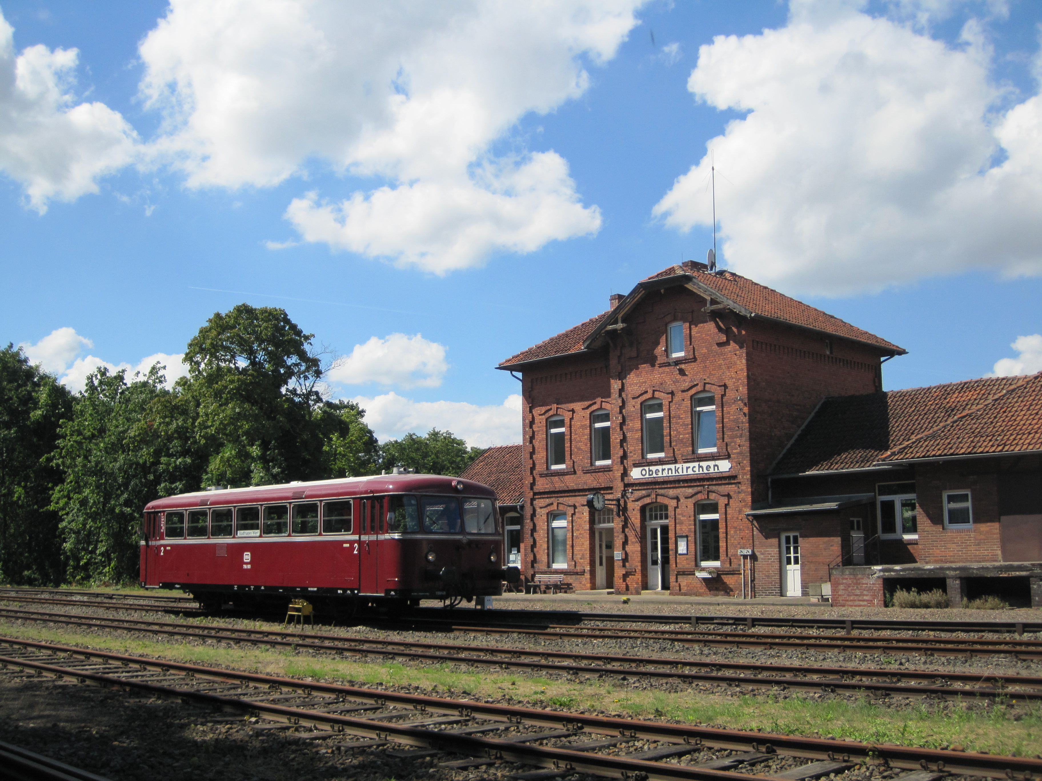 Railbus at Obernkirchen station, Obernkirchen, Germany check usage